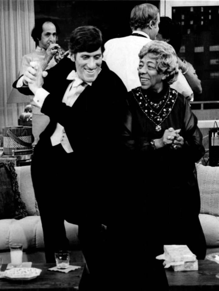 Photo of Paul Benedict (Harry Bentley, the Jefferson's neighbor) and Zara Cully (Olivia Jefferson, George's mother) dancing at a party given by George and Louise at home.